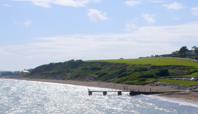 Furzy Cliff and Bowleaze Cove The low cliffs of Oxford clay are just east of Weymouth. This is the view west from the front lawn of the Riviera hotel. Only the eastern end of the cliffs are in SY7081.